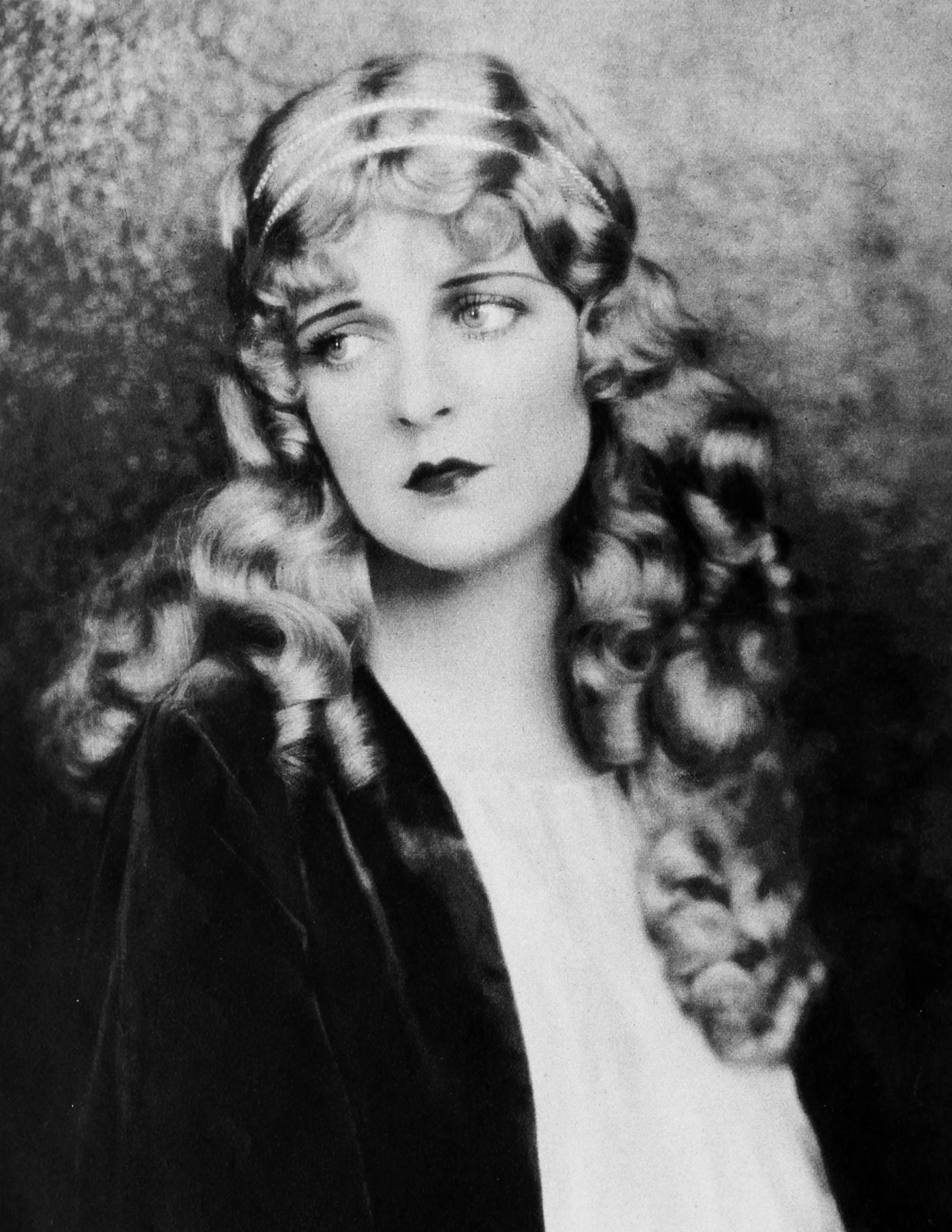 Portrait of May McAvoy in the role of Esther in Ben-Hur. She is wearing a blonde wig.